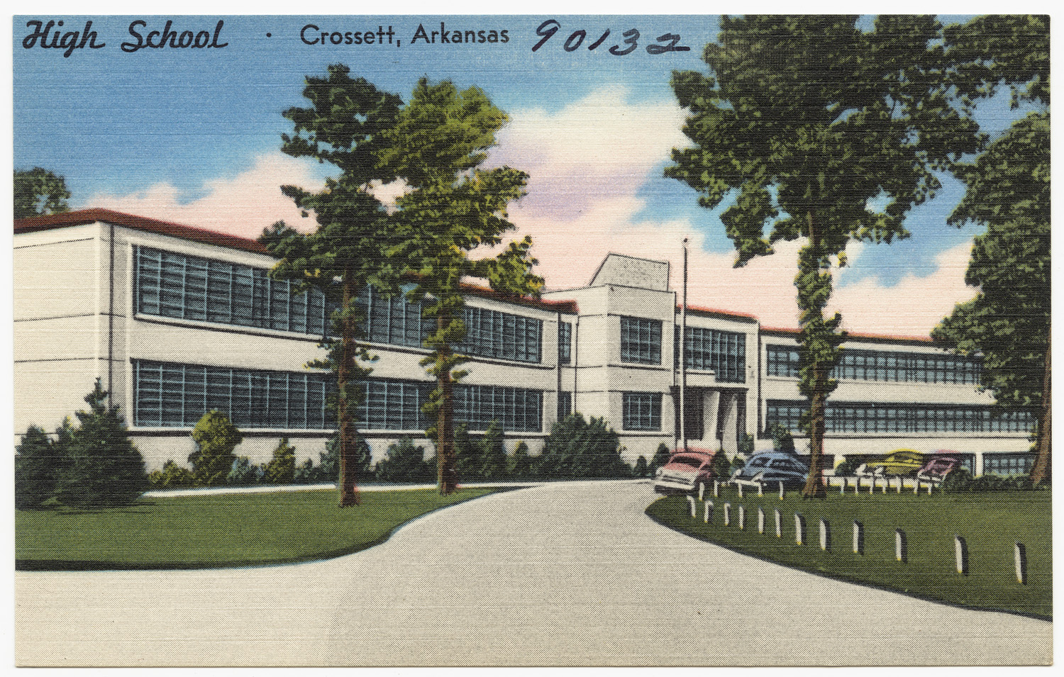 File name: 06_10_013039 Title: High school, Crossett, Arkansas Date issued: 1930 - 1945 (approximate) Physical description: 1 print (postcard) : linen texture, color ; 3 1/2 x 5 1/2 in. Genre: Postcards Subject: Schools Notes: Title from item. Collection: The Tichnor Brothers Collection Location: Boston Public Library, Print Department Rights: No known restrictions